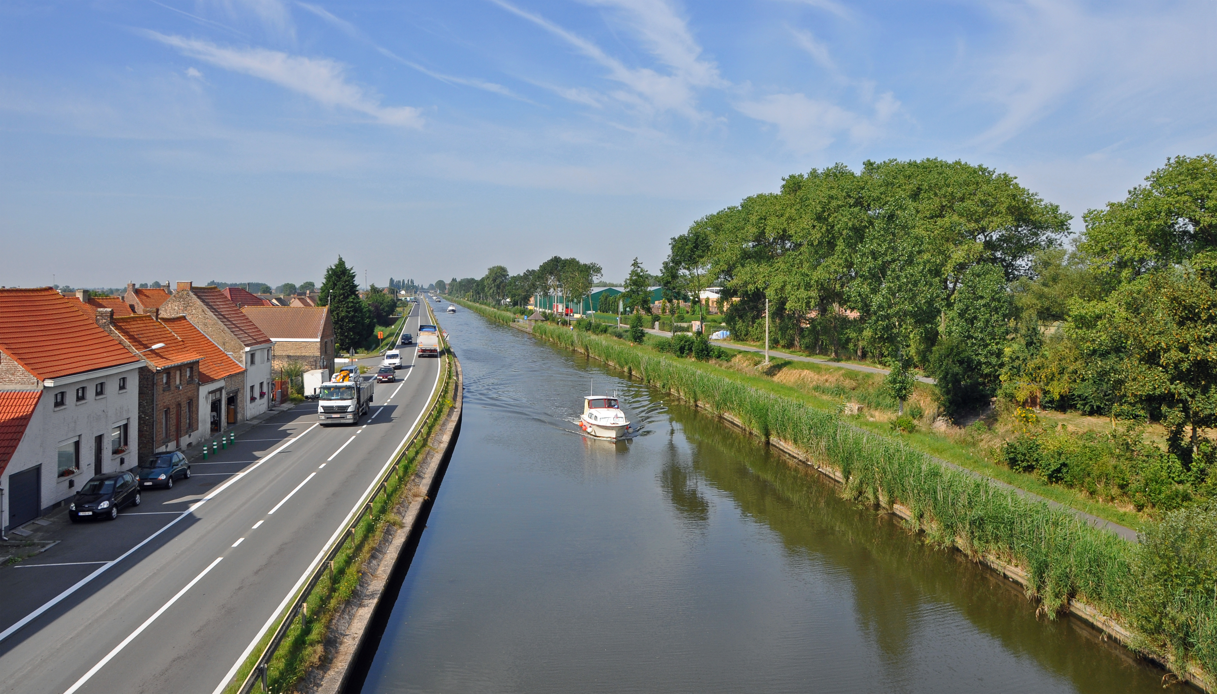 The Plassendale-Nieuwpoort-Dunkirk canal in Snaaskerke (West Flanders, Belgium)